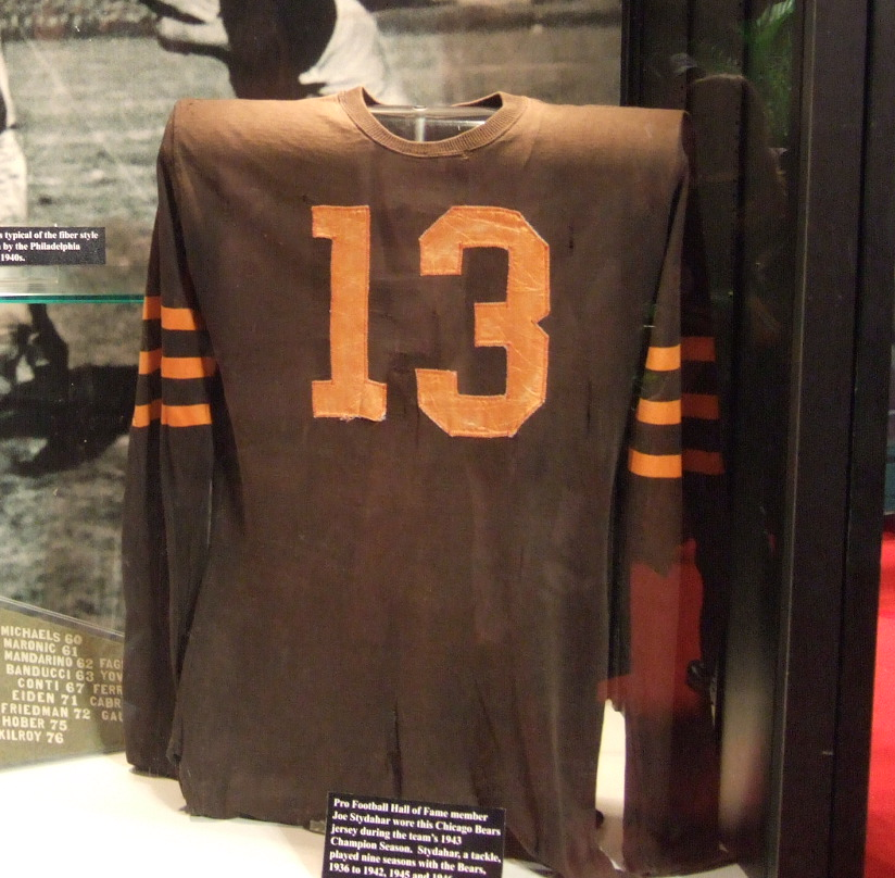 Joe Stydahar's #13 Chicago Bears 1943 jersey at the Hall of Fame